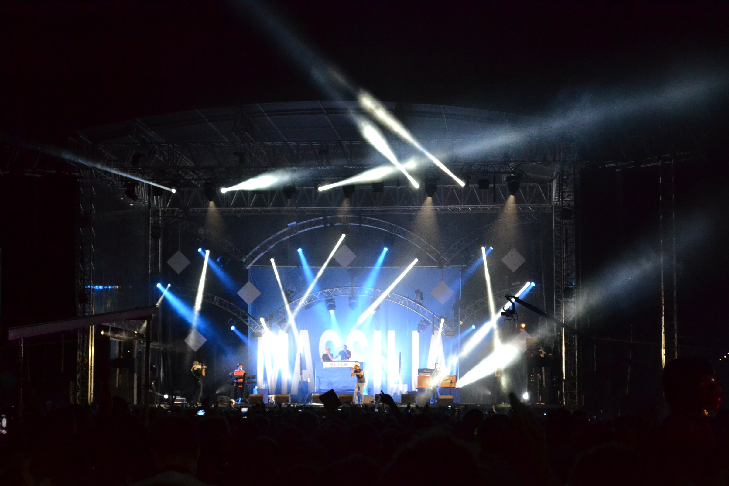 Massilia concert during Rio Loco 2015 festival, in Toulouse.